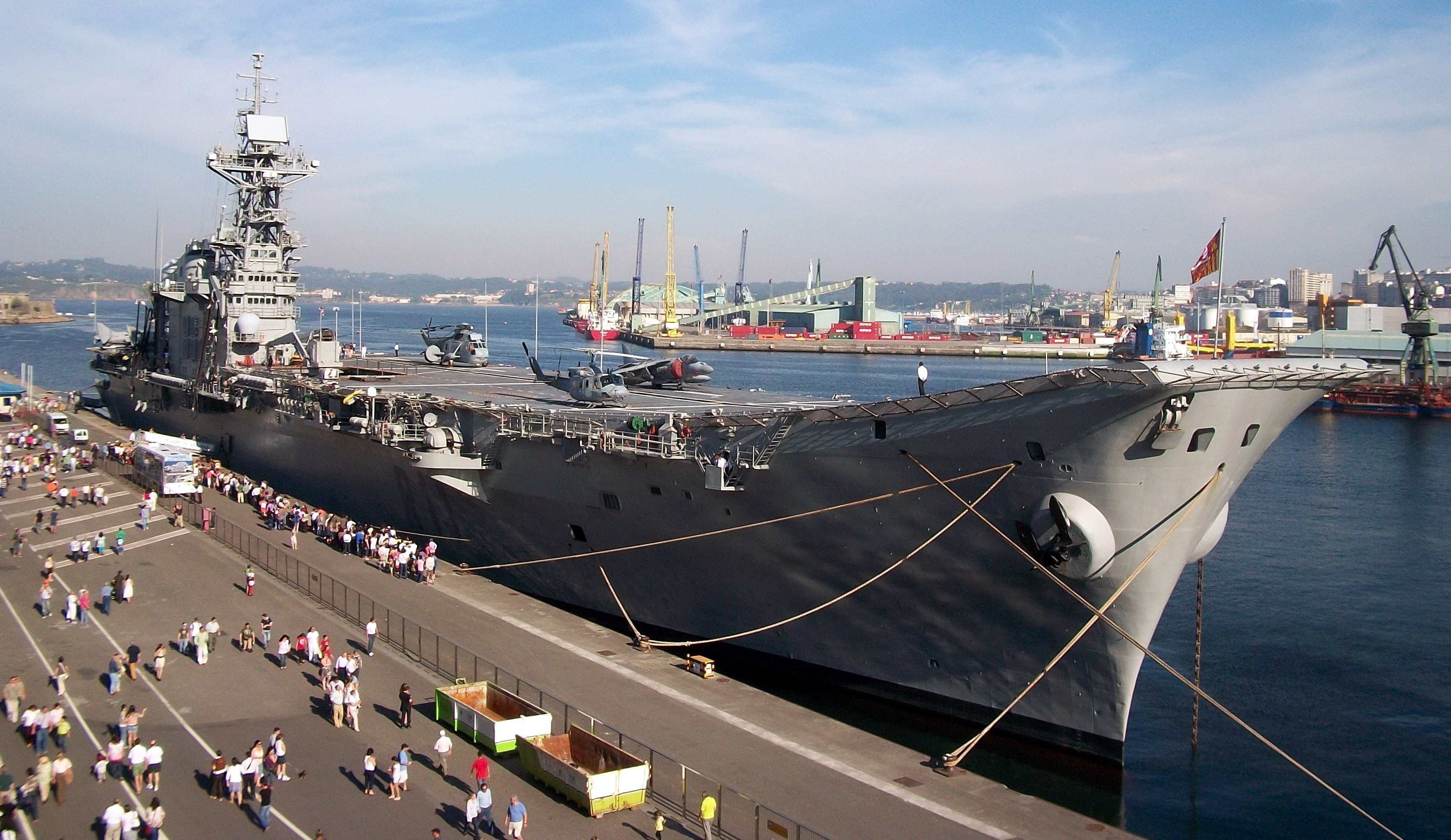 Spanish aircraft Principe de Asturias in the port of La Coruña